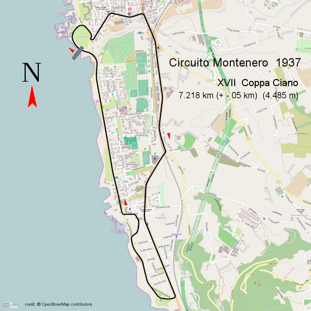 Street Map: Circuito Montenero 1937